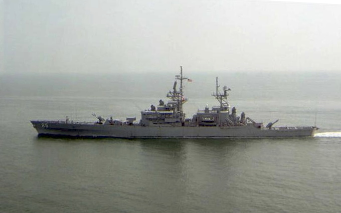 The U.S. Navy guided missile cruiser USS Bainbridge (CGN-25) underway at sea, circa in 1991.